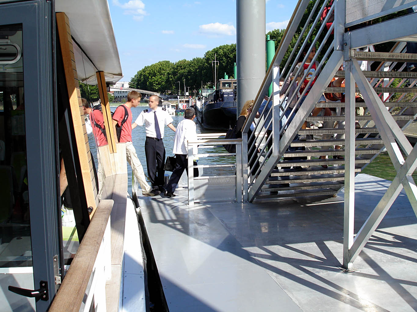 Maisons-Alfort pier (Val-de-Marne), river shuttle Voguéo, on the river Seine, France